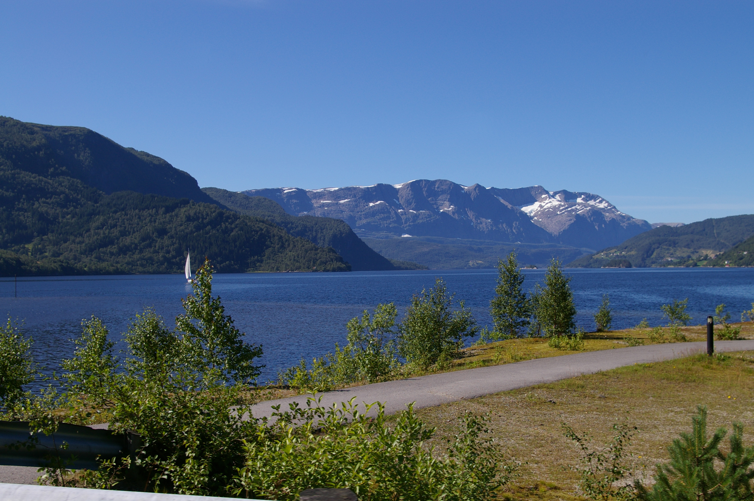 Førdefjorden near Naustdal in Sogn og Fjordane, Norway